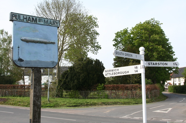 Village Signs The signposts are self explanatory, however the village sign recalls dirigible balloons in the area. Ian Crump explains that the sign relates to the WW1 Royal Navy Air Service base for Airships that was located in the fields south of the village until about the mid 1920's. The R24 and R33 were both flown from here at different times. No trace of this large establishment remains above ground, after the huge hangars were dismantled and I believe relocated to Cardington near Bedford.